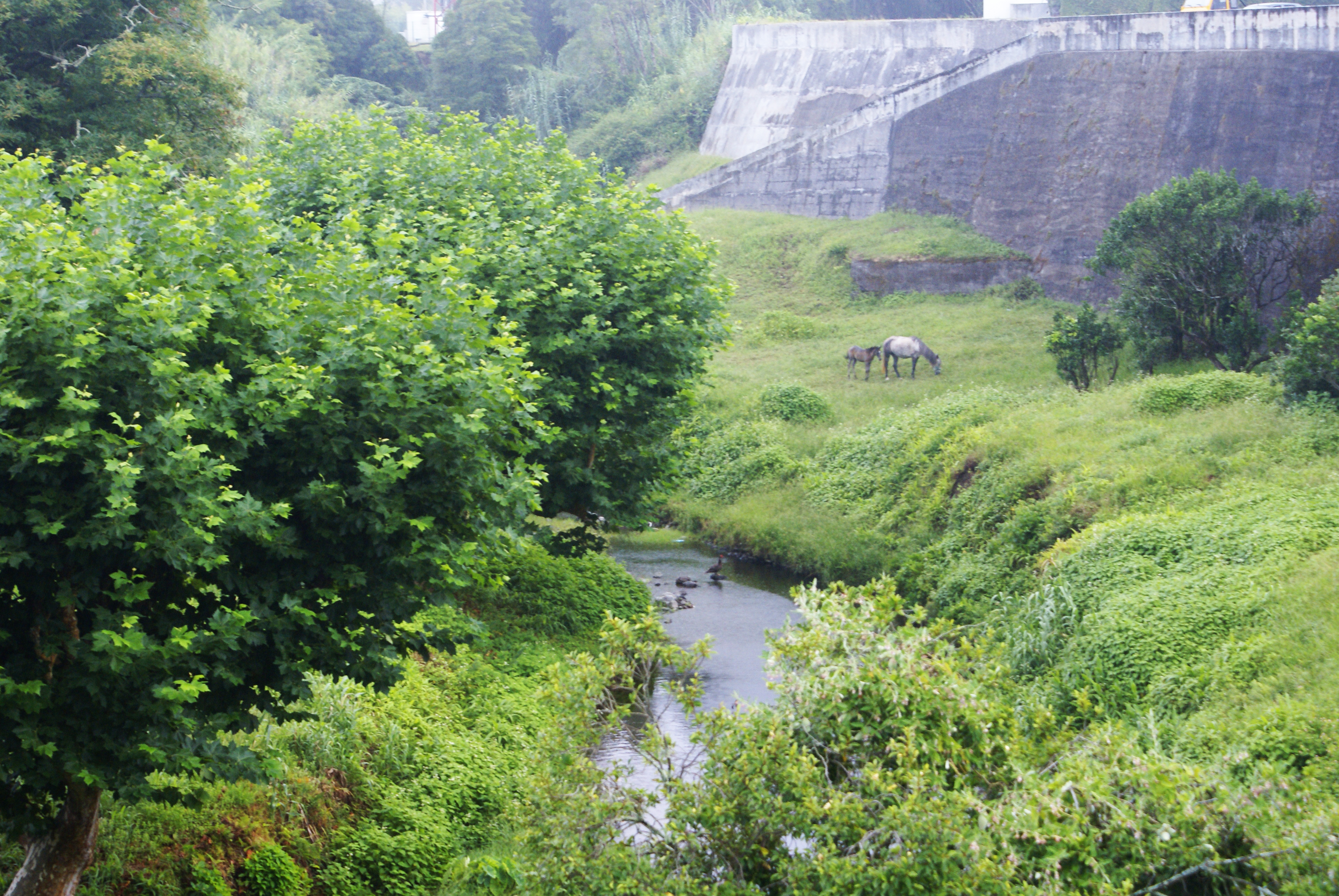 Ribeira dos Flamengos, Flamengos, concelho da Horta, ilha do Faial, Açores, Portugal